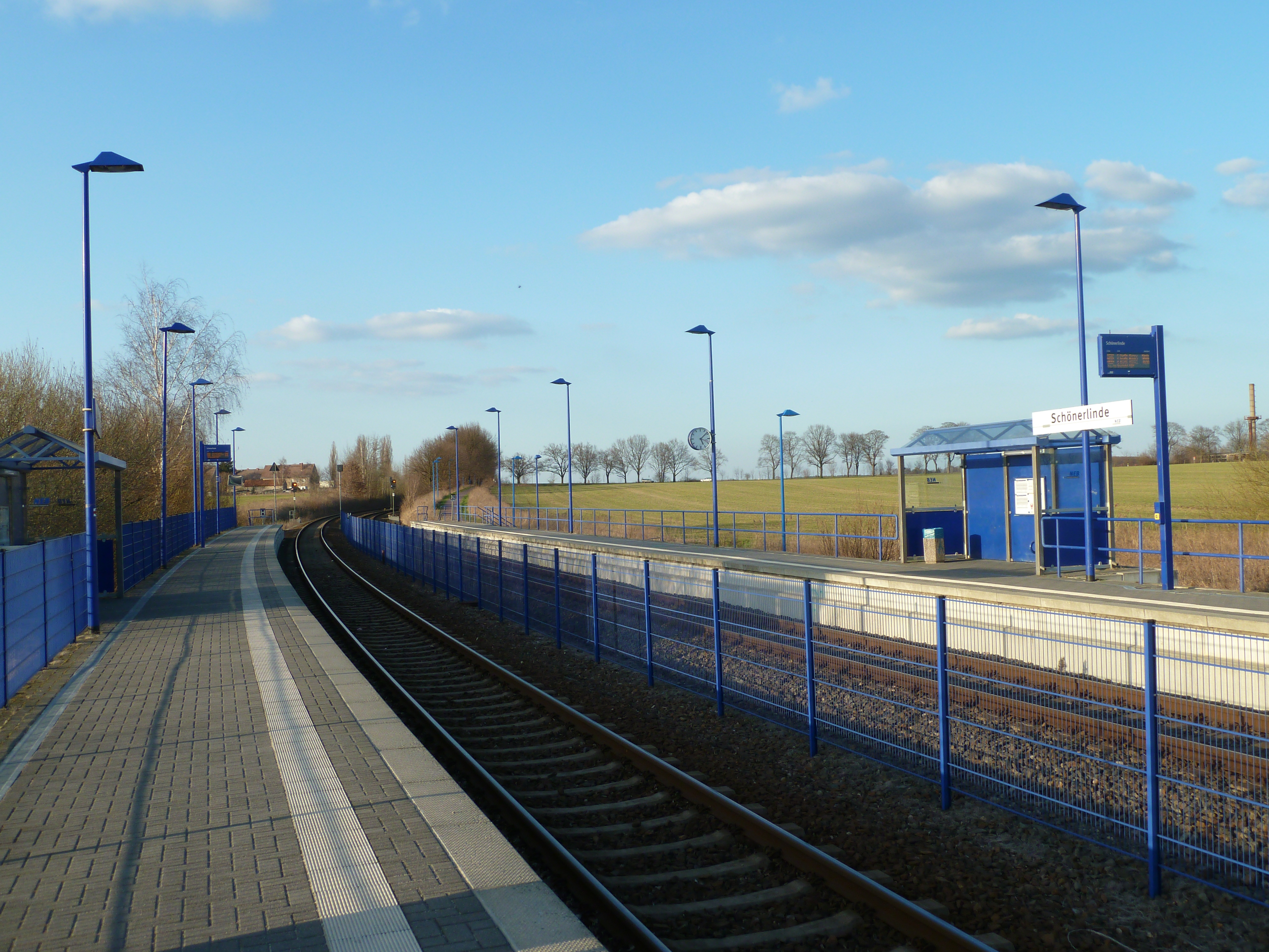 Schönerlinde train station